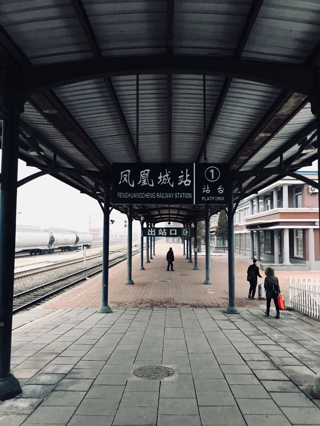 Fenghuangcheng, Shenyang-Dandong Railway, Fengshang Railway